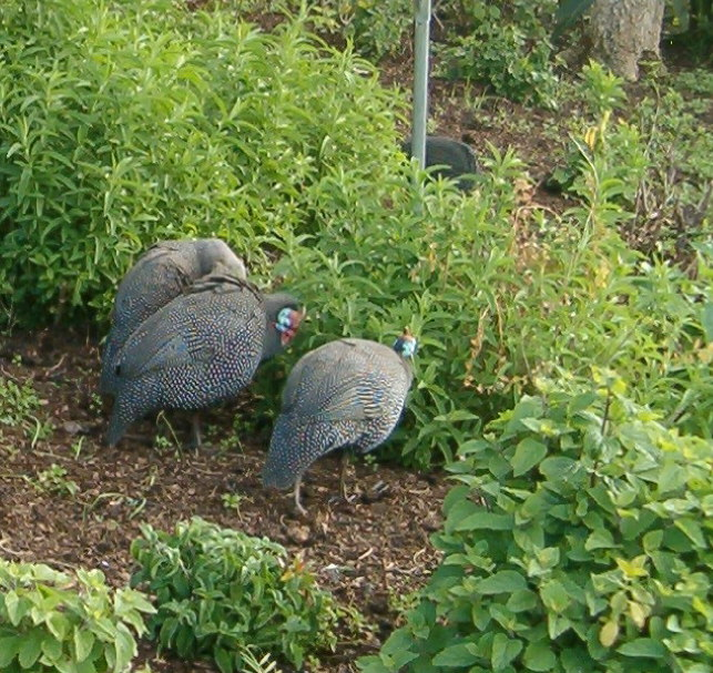 Helmeted guineafowl at Kirstenbosch Botanical Garden, South Africa. It is an introduced species on the Cape Peninsula from elsewhere in South Africa, but they are not domesticated.